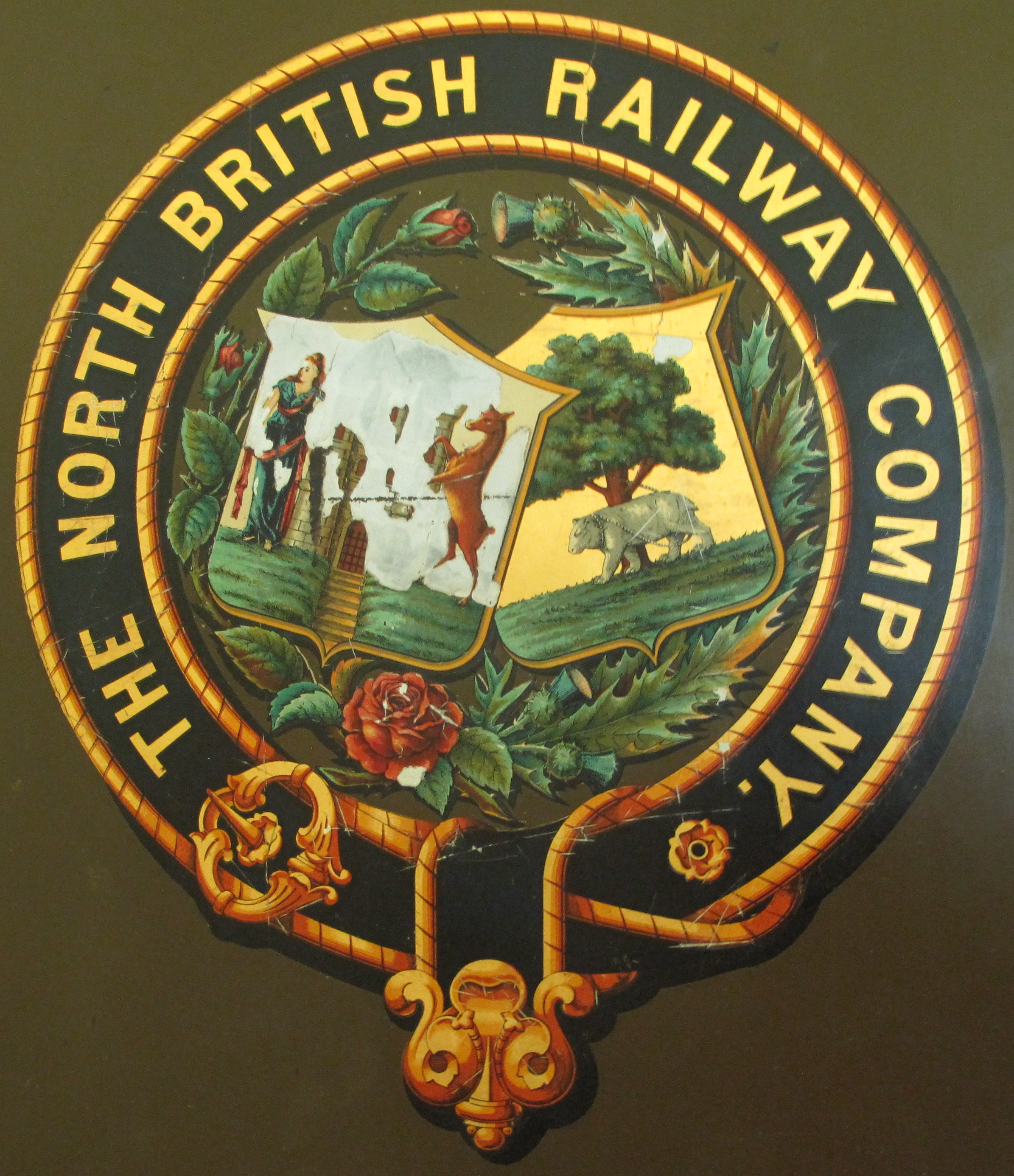 Coat of Arms of the North British Railway